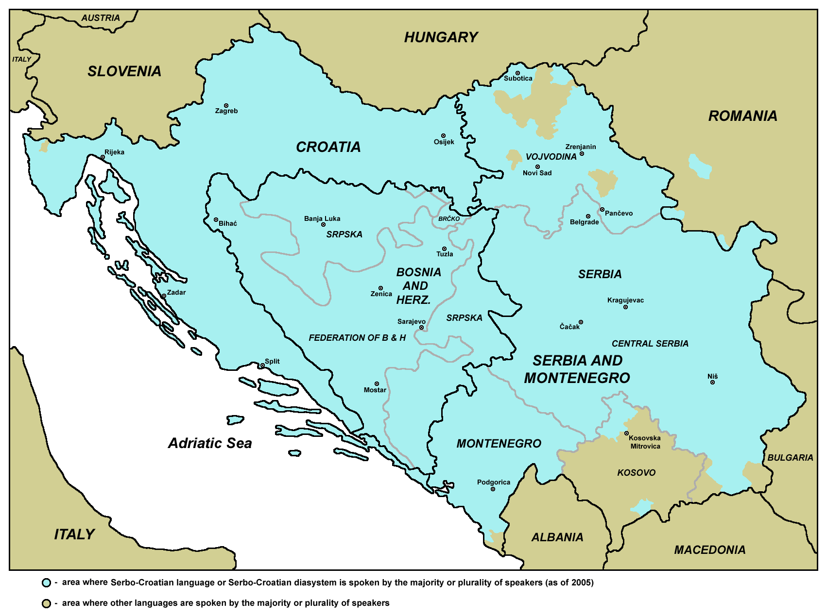 Area where the Serbo-Croatian language or Serbo-Croatian diasystem is spoken by the majority or plurality of inhabitants (as of 2005) - data by municipalities. Note: many modern linguists still consider Serbo-Croatian to be a single language, no matter that the majority of its speakers declare in census that they speak its official standard forms: Serbian, Croatian, Bosnian, and Montenegrin. Srpskohrvatski / српскохрватски: područje na kome apsolutna ili relativna većina stanovnika govori srpskohrvatski jezik (2005. godina) - podaci po opštinama. Napomena: mnogi današnji lingvisti smatraju da je srpsko-hrvatski i dalje jedan jezik, bez obzira što većina njegovih govornika na popisu iskazuje da govori njegove zvanične standardne forme: srpski, hrvatski, bosanski i crnogorski.